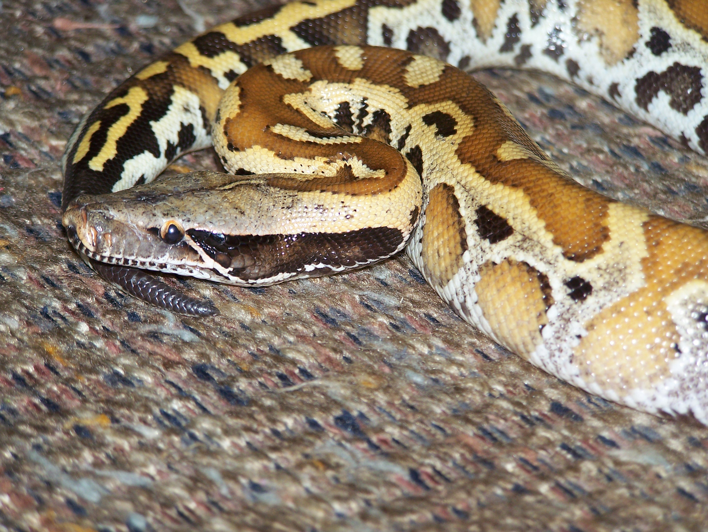 Red blood python, Python brongersmai